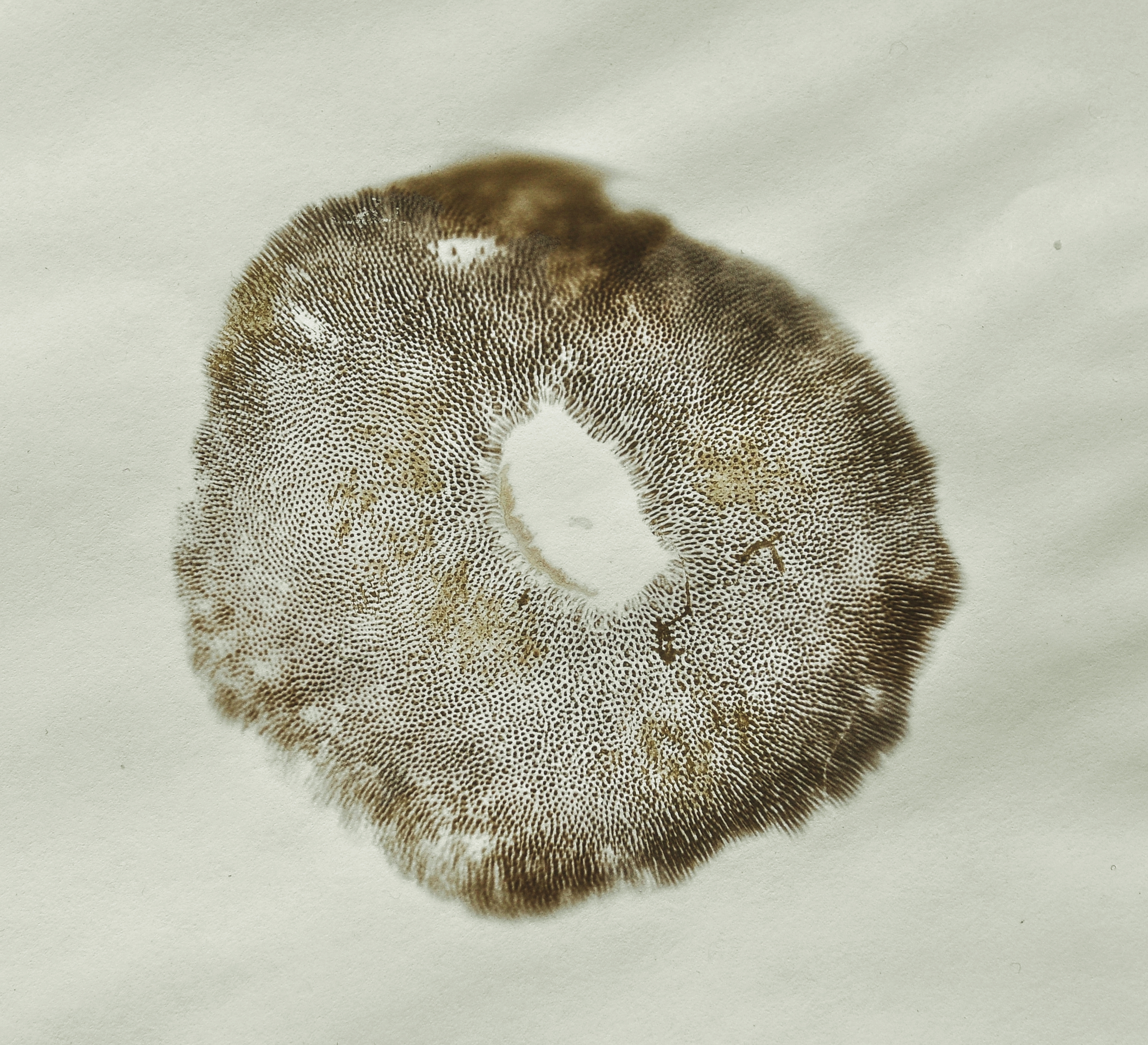 Spore print of Red Cracking Bolete (Boletus chrysenteron).